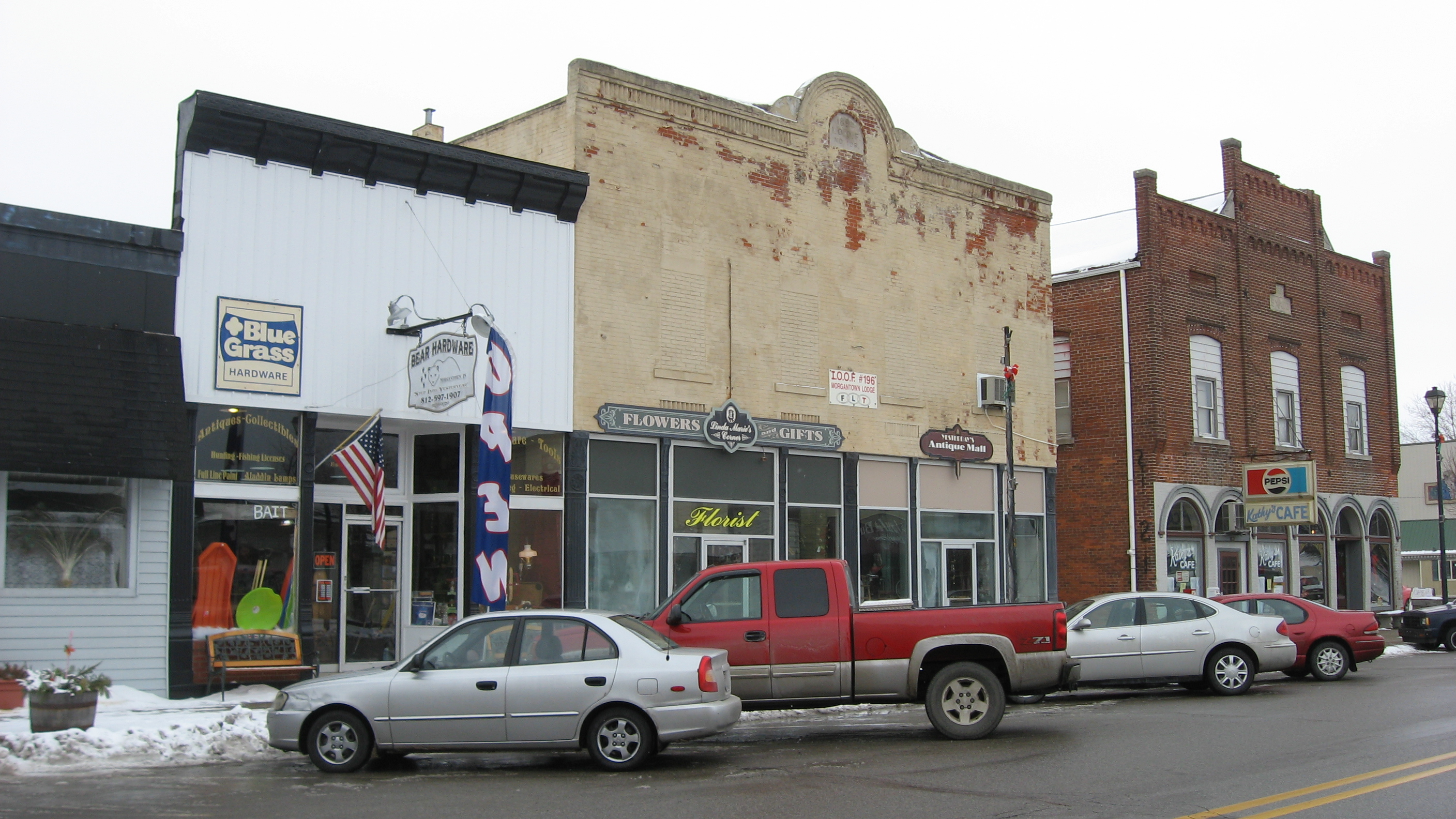 Buildings on the southern side of the 100 block of W. Washington Street in Morgantown, Indiana, United States. This block is part of the Morgantown Historic District, a historic district that is listed on the National Register of Historic Places.